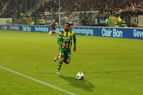 Tjaronn Chery